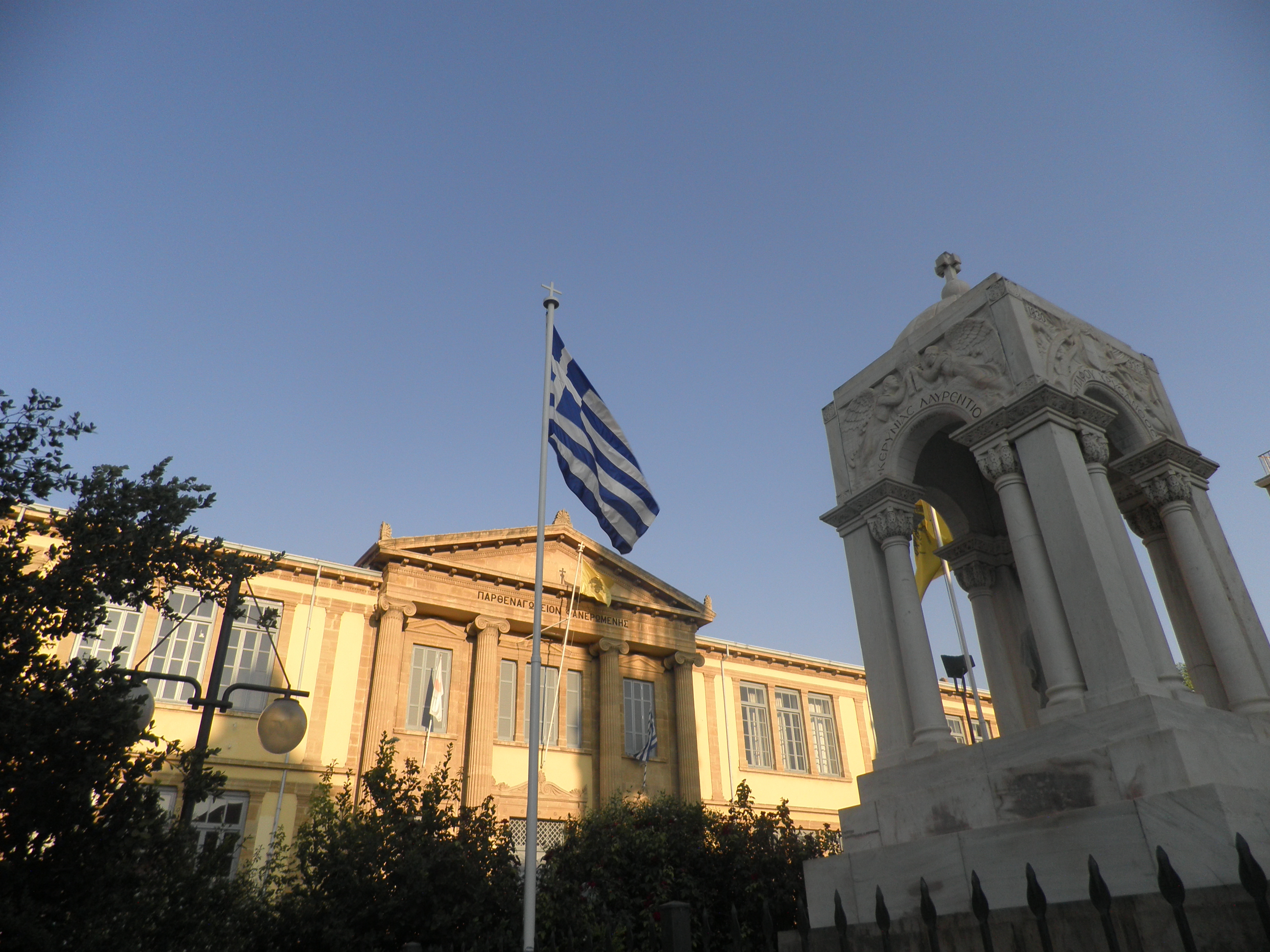 Parthenagogeio Faneromenis